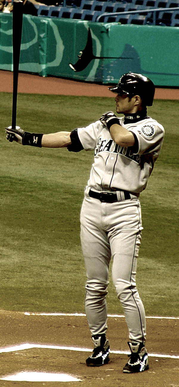 Ichiro's pre-pitch batting stance, May 2005. Photo by Googie Man 06:28, 29 May 2005 . . Googie man . . 601×1300 (271,628 bytes)